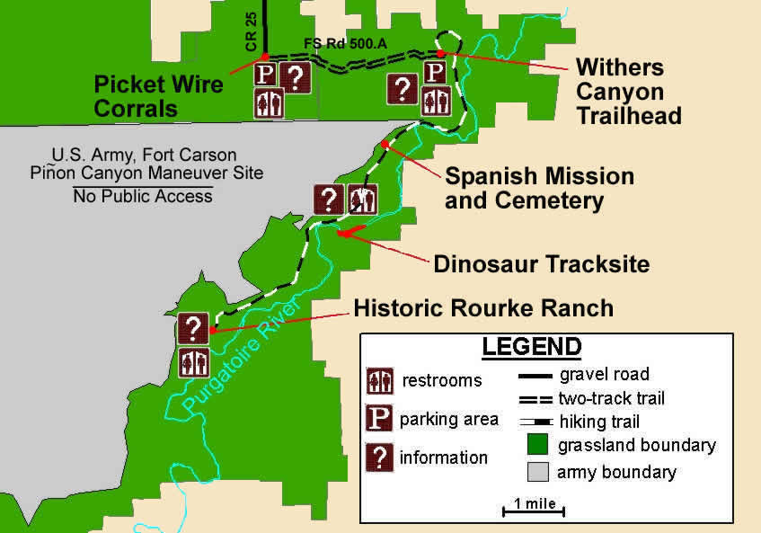 A map of Picketwire Canyon in the Comanche National Grassland